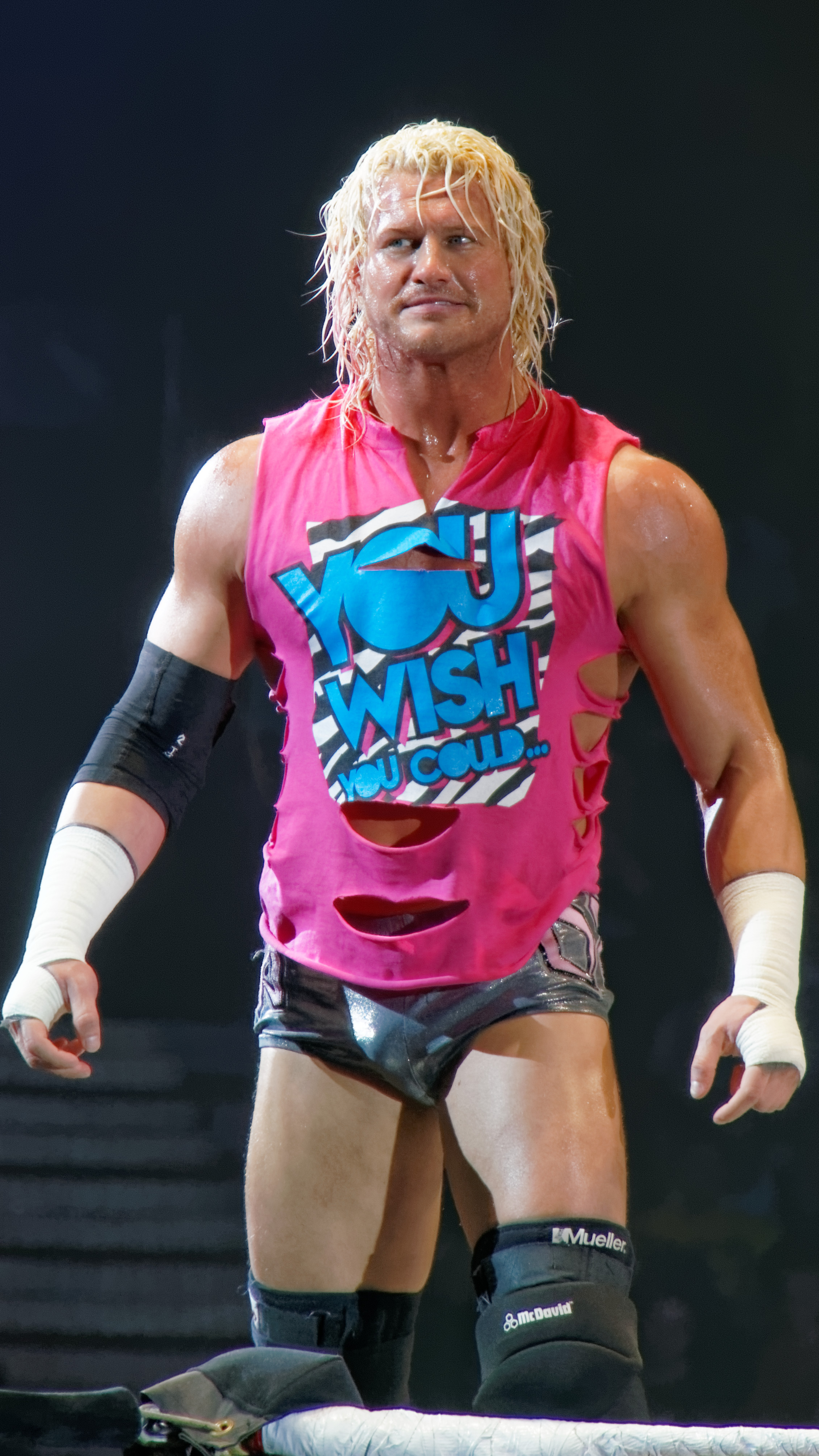 Professional wrestler Dolph Ziggler (Nick Nemeth) posing on the turnbuckle prior to a match at a WWE show in November 2013.